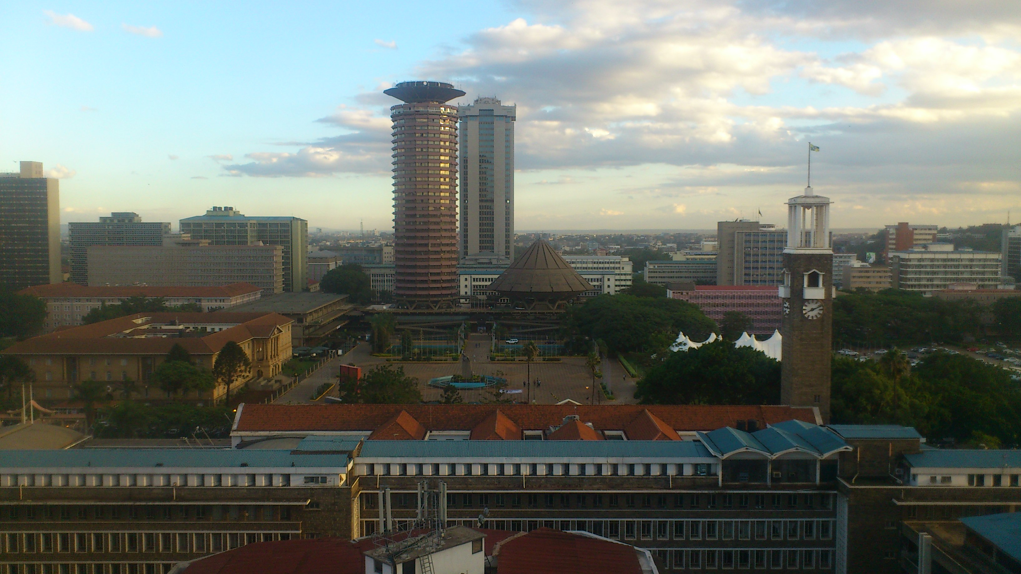 Photo of Nairobi showing Kenyatta International Conference Center, Times Tower and City Hall.jpg